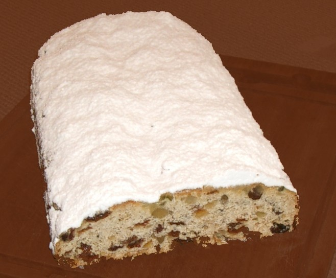 This image shows a selfmade Rosinen-Christstollen.